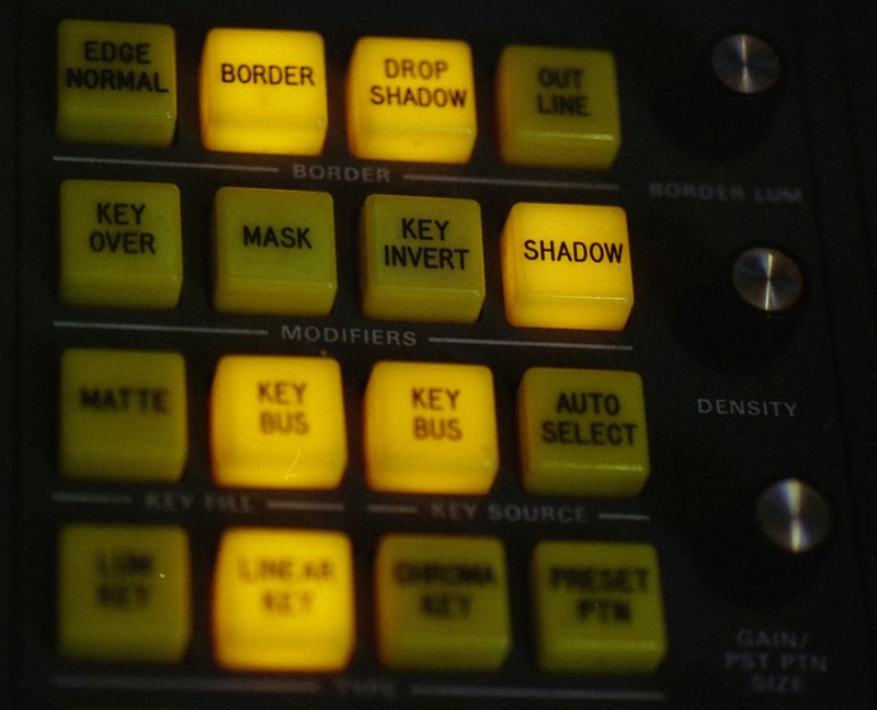 GVG 200 vision mixer - keyer control panel